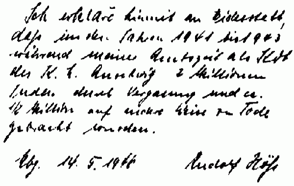 Excerto da declaração de Rudolf Höss no Tribunal de Nuremberg. "Ich erkläre hiermit an Eidesstatt, daß in den Jahren 1941 bis 1943 während meiner Amtszeit als Kdt des K.Z. Auschwitz 2 Millionen Juden durch Vergasung und ca. 1/2 Million auf andere Weise zu Tode gebracht wurden." / English translation: "I hereby declare under oath that between 1941 and 1943, during my term of office as commandant of the Auschwitz concentration camp, 2 million jews were killed by gasification and about 1/2 million were killed by other means."